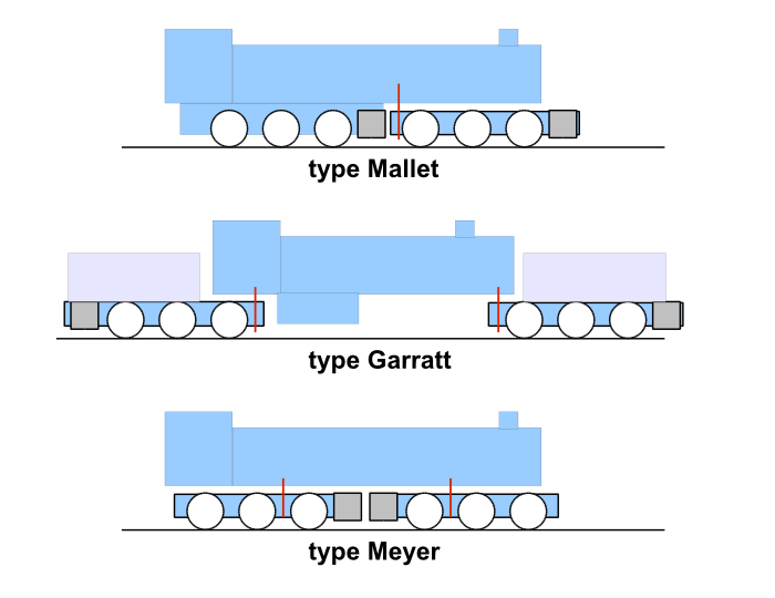 Types of articulated steam locomotives. Cylinders are in gray, articulation points in red.